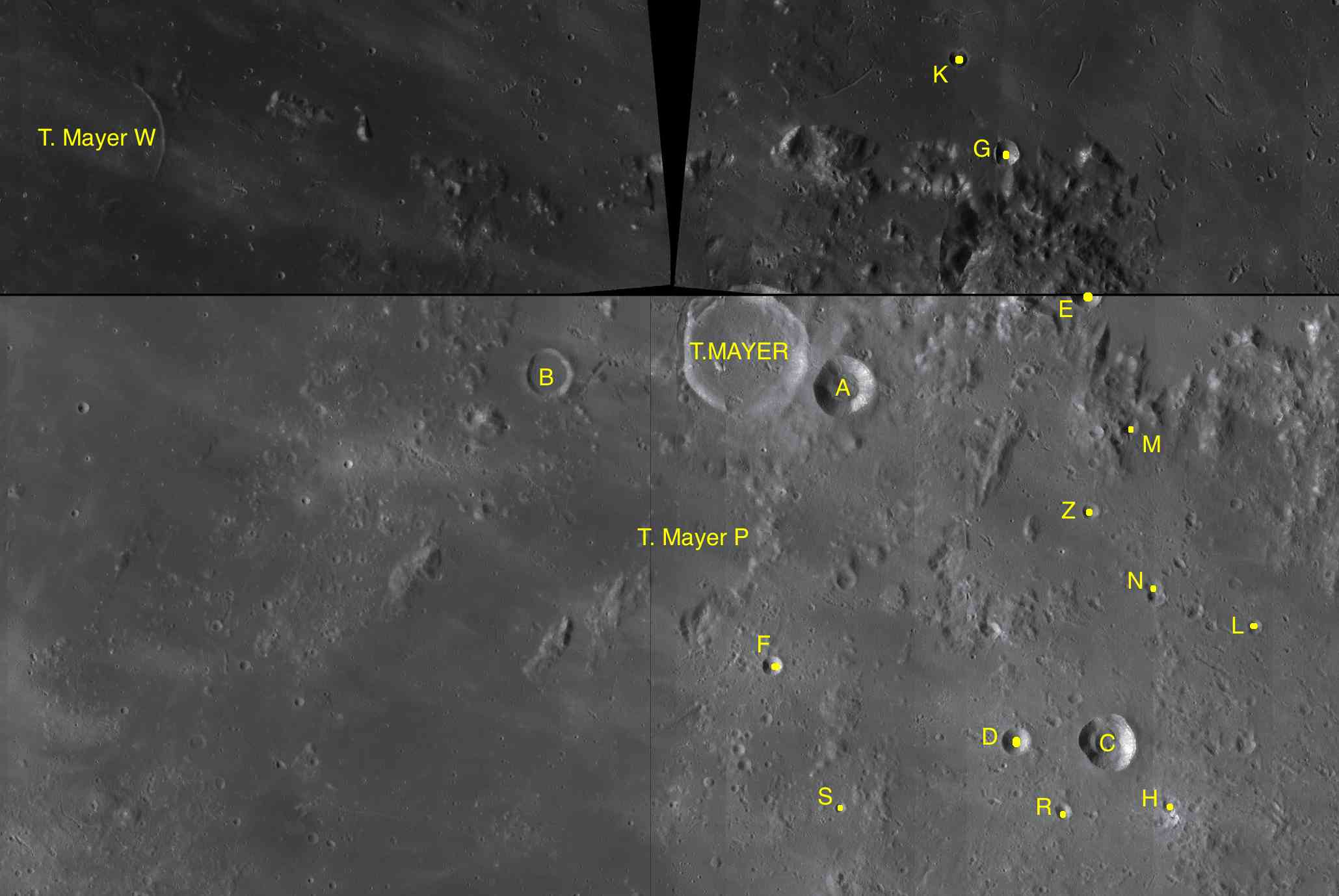 Parts of the charts LAC-39, LAC-40, LAC-57, LAC-58 used for the presentation